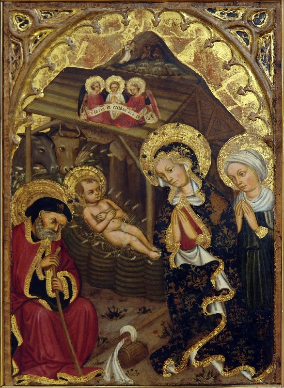 Zanino di Pietro (attr.), Adorazione del Bambino con san Giuseppe e santa Museo Correr, Venezia